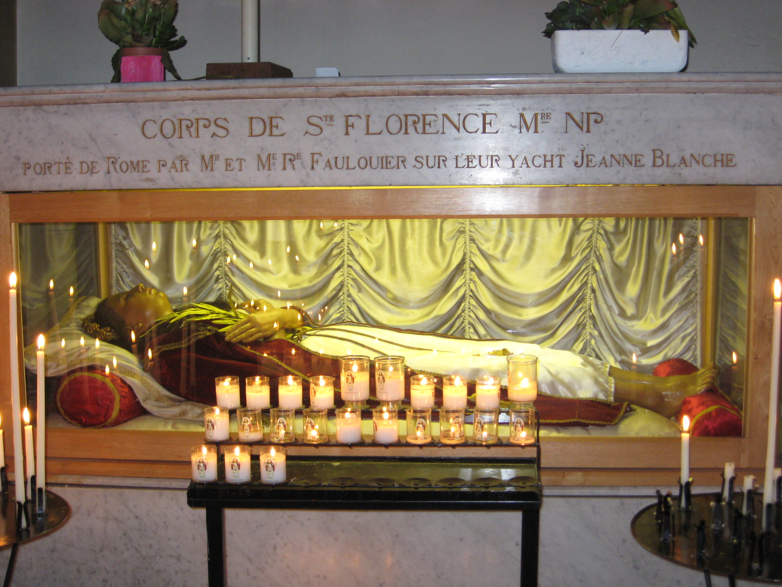 Effigy of Sainte-Florence d'Agde. Eglise Saint-Pierre de Palavas-les-Flots (France)